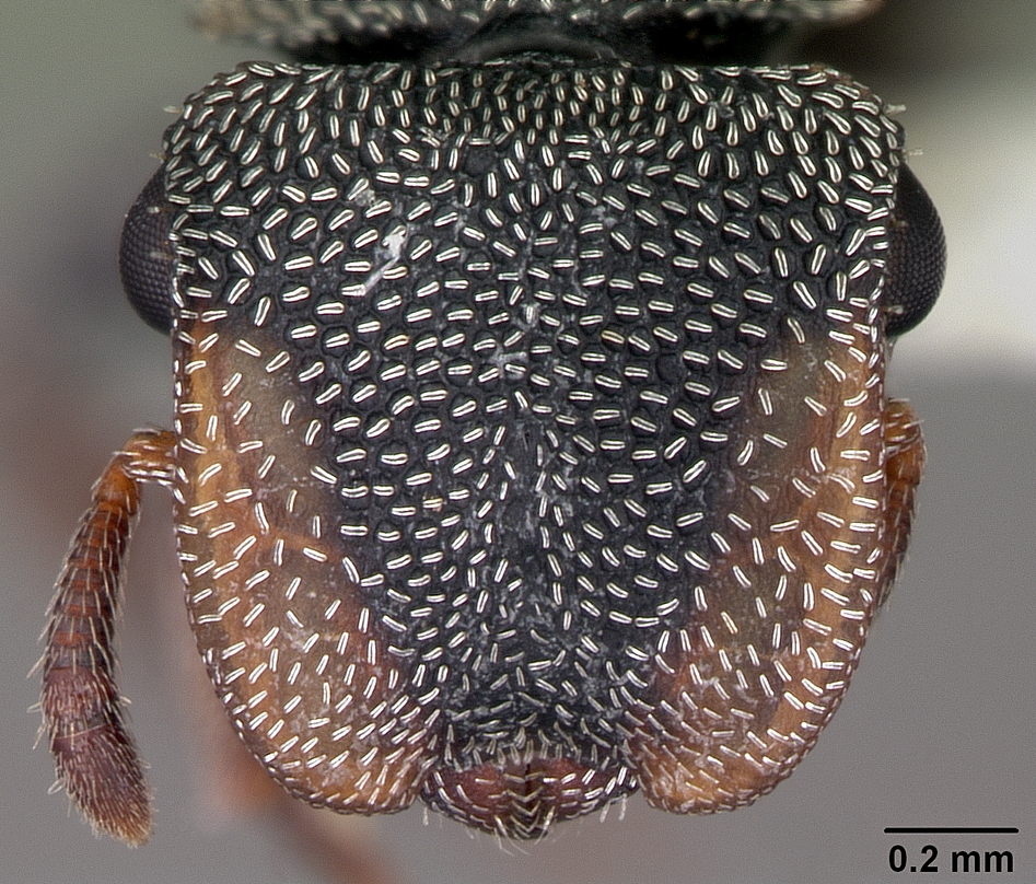 Head view of ant Cephalotes texanus specimen casent0104842.